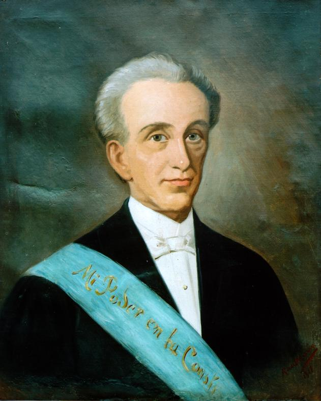 Portrait of Dr. Jerónimo Carrión y Palacio (1801-1873), President of Ecuador.